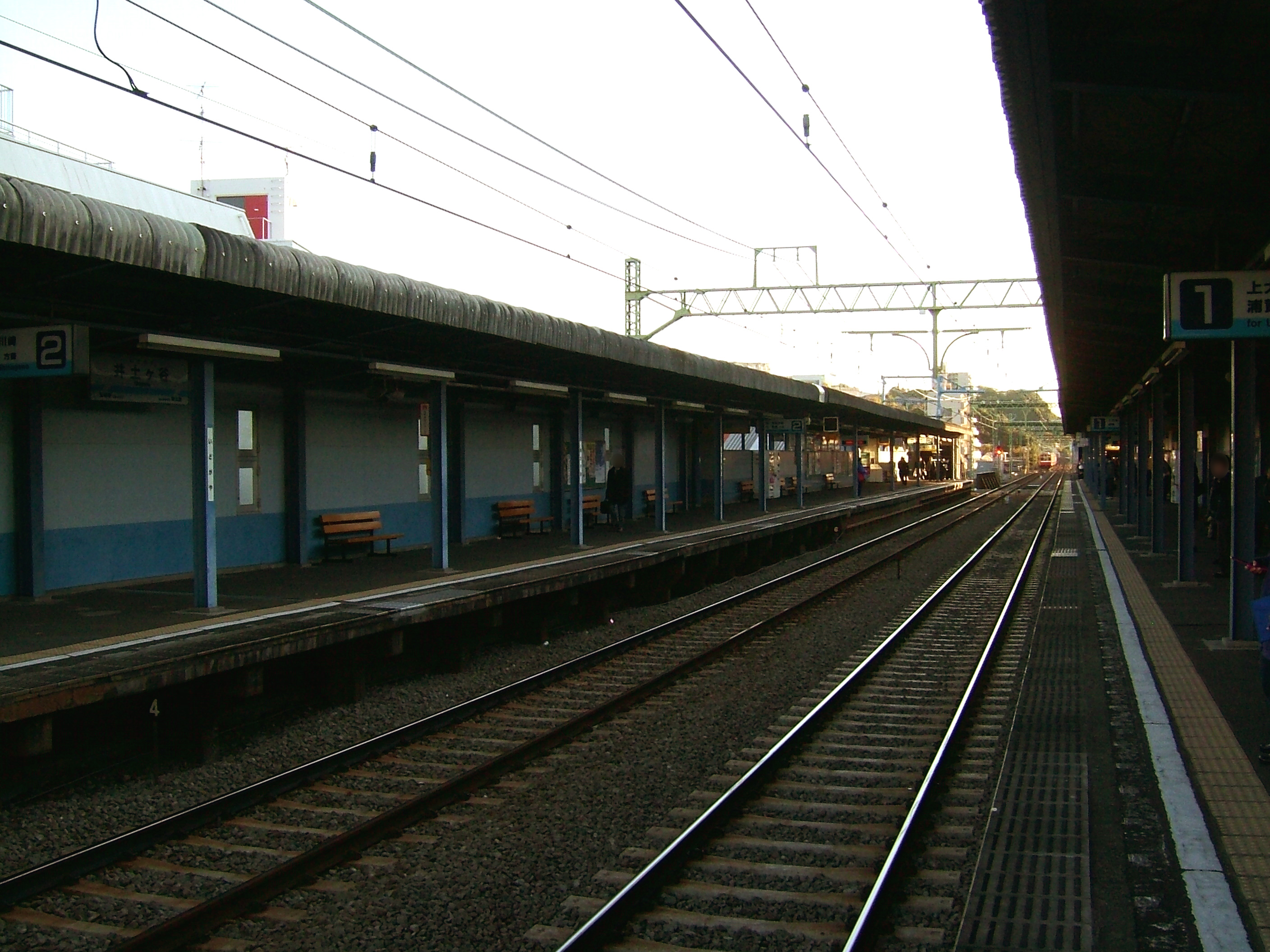 Idogaya Station platform (Keihin Electric Express Railway Main Line)